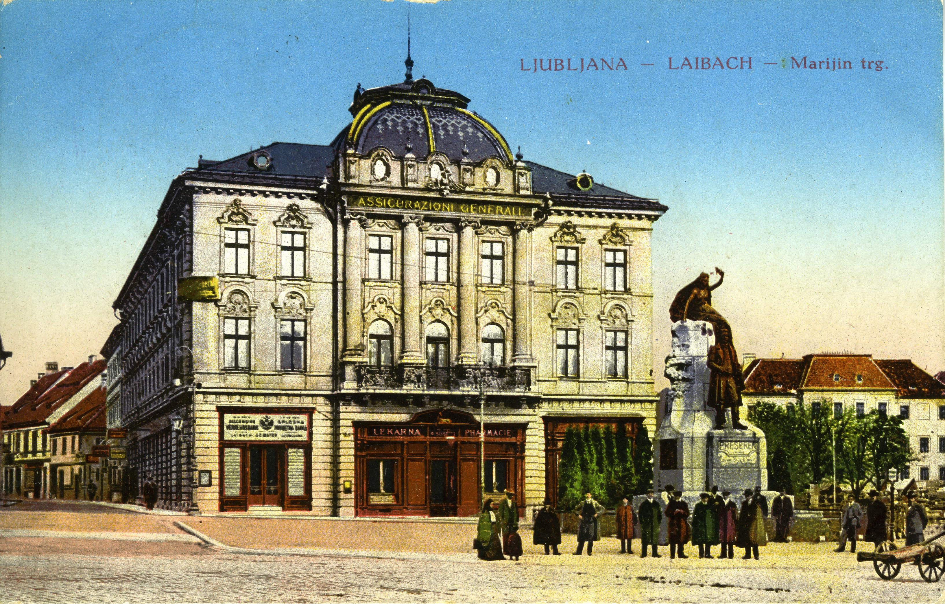 Postcard of Ljubljana Central Pharmacy.